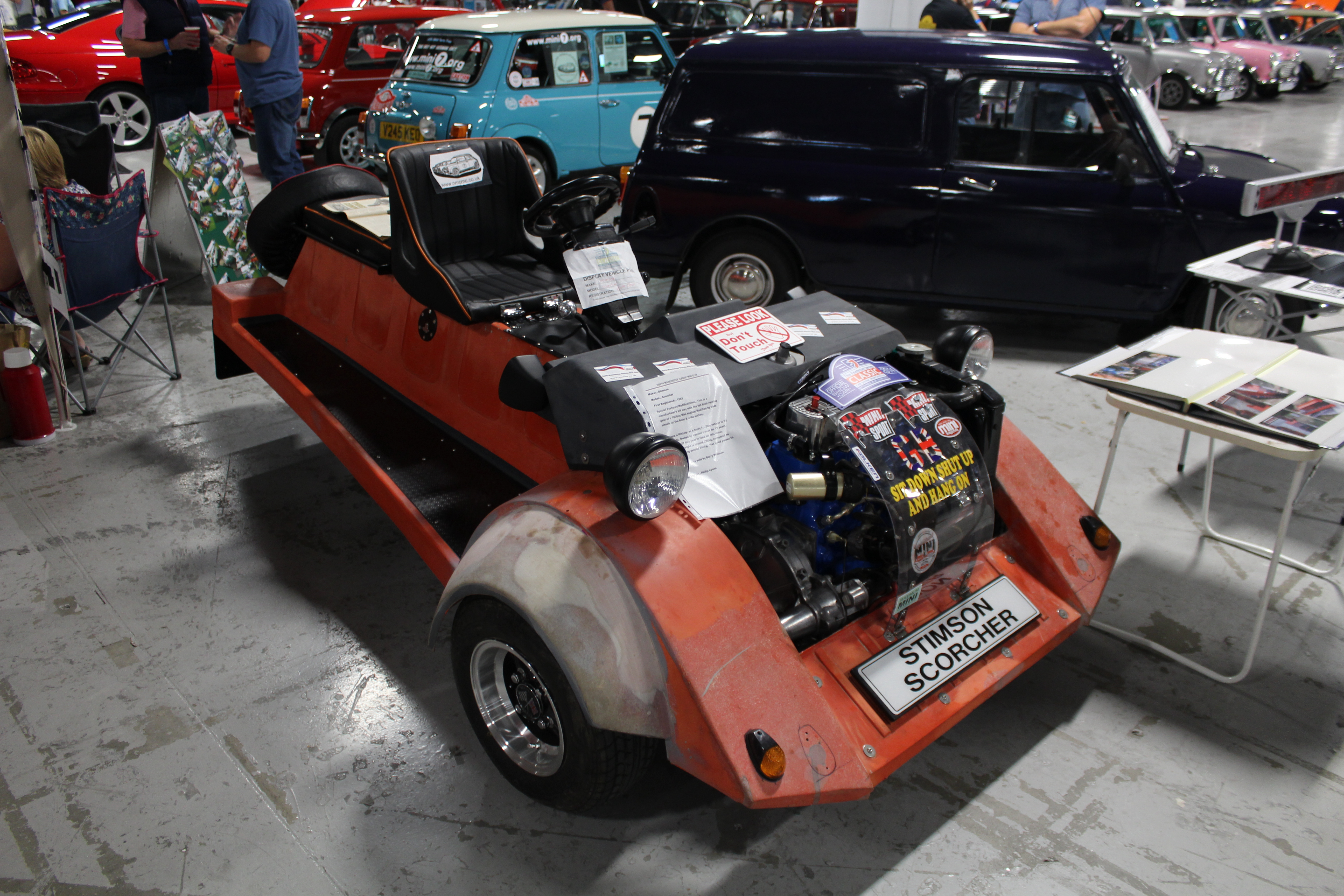 Stimson Scorcher